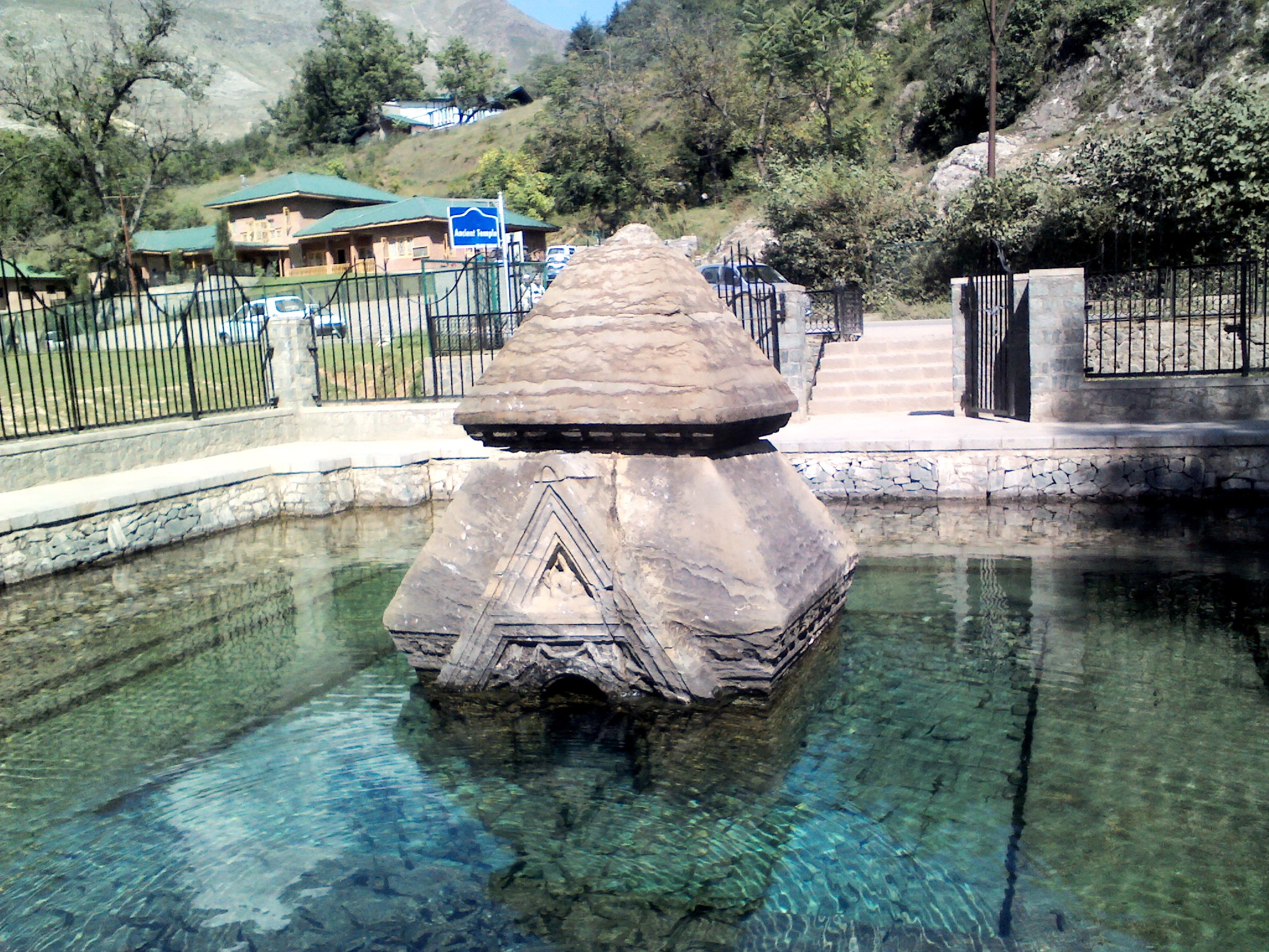 Anicient Hindu temple near the east-western shore of Manasbal Lake in Kashmir